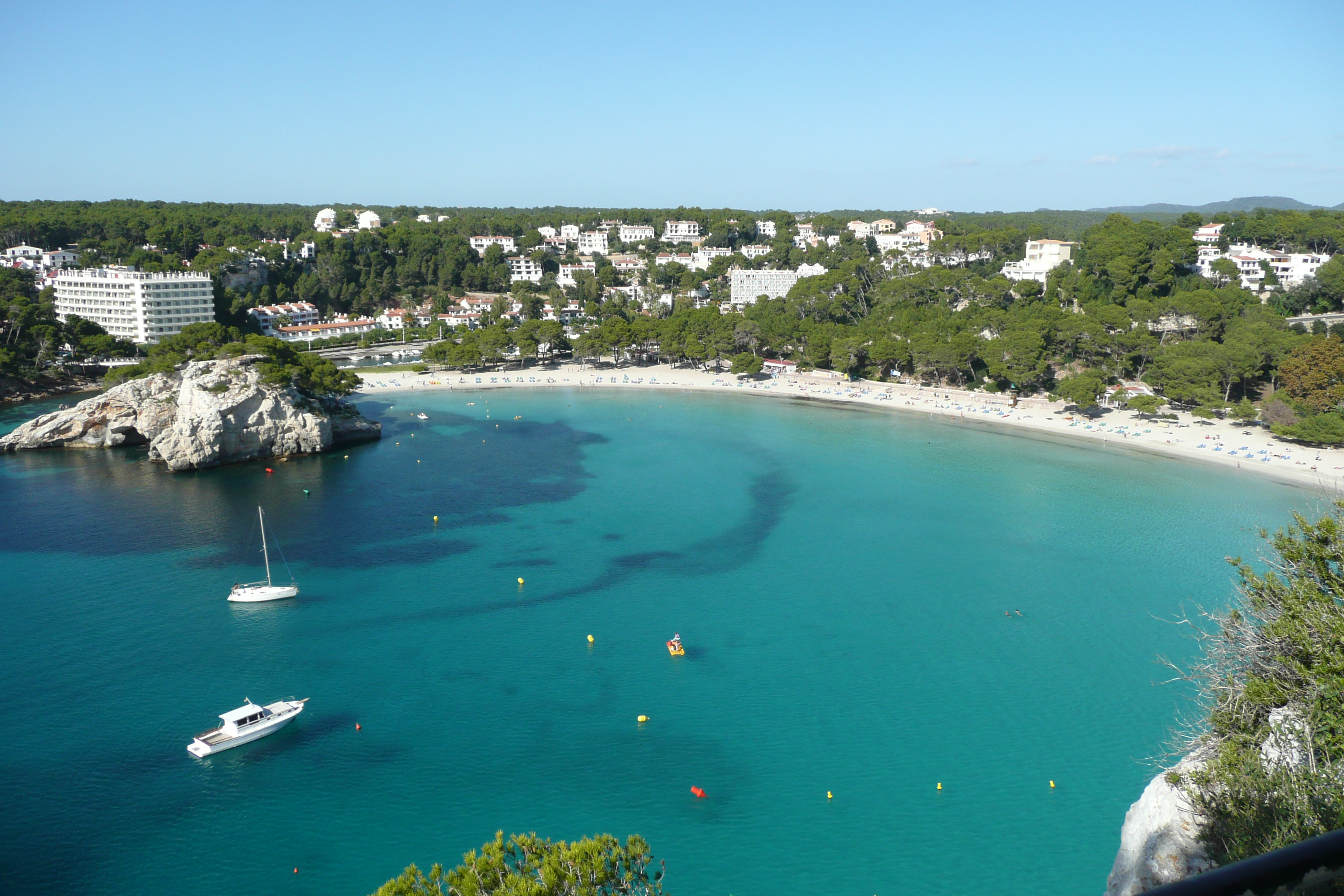 Cala Galdana (also known as Cala Santa Galdana), Minorca, Spain